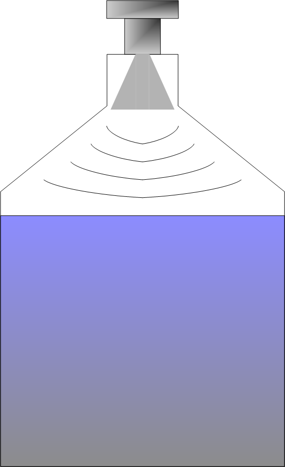 Diagram of the use of ultrasound to measure fluid level in an industrial tank or vat.